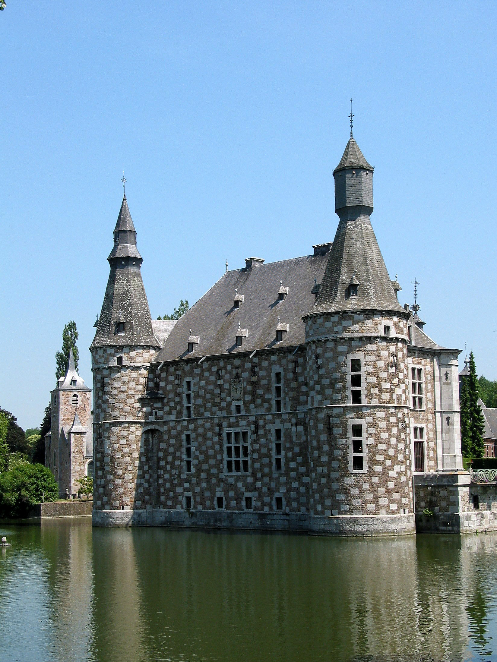 Jehay (Belgium), the castle (XVI-XVIIth centuries).